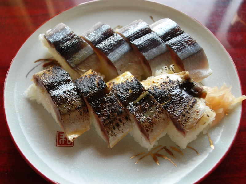 Sanma-zushi at Kii Nagashima